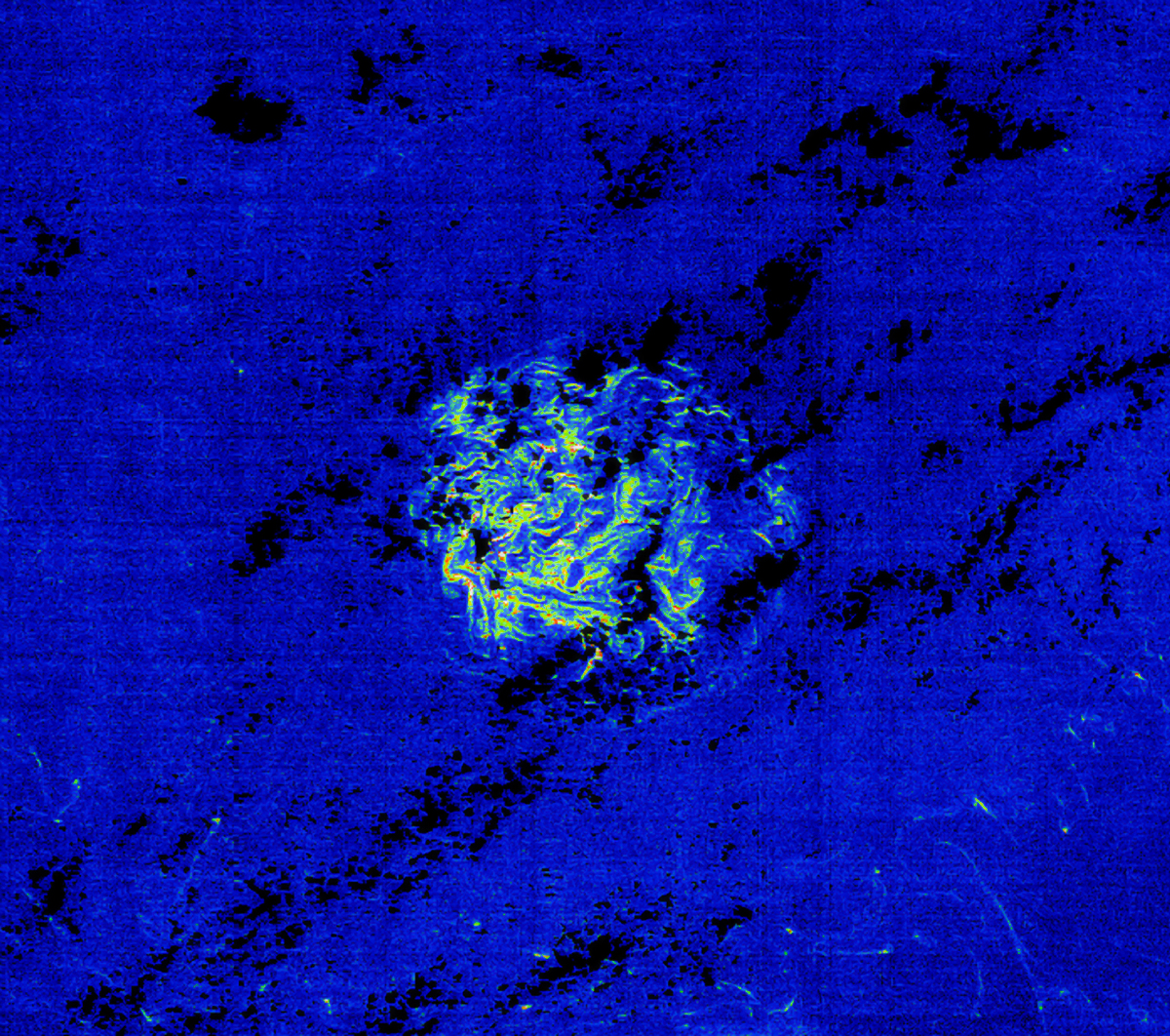 A patch of Sargassum - free-floating seaweed often referred to in nautical lore for entangling ships - captured on 4 September 2008 by Envisat's MERIS instrument off the eastern coast of the United States in the North Atlantic. The patch is centred at 35°45'N and 66°21'W and is about 45 km across.